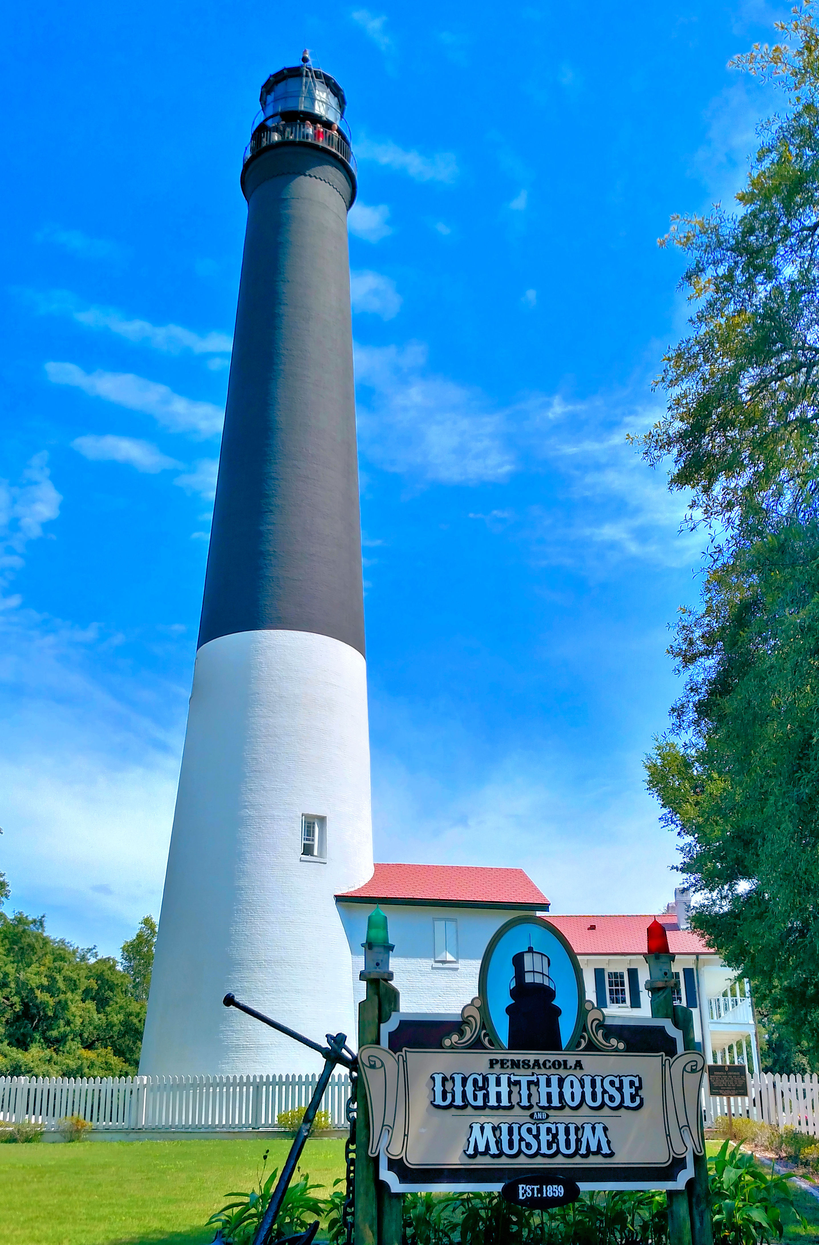 Pensacola Light in July 2017